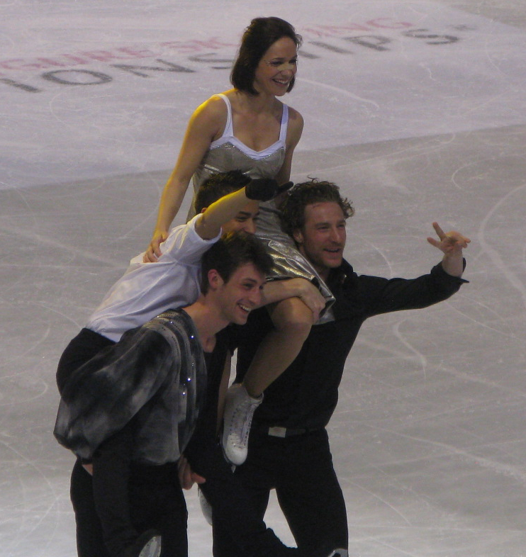 French figure skating team leaders, Brian Joubert, Florent Amodio, Nathalie Péchalat and Fabian Bourzat at the figure skating gala exhibition of 2012 World Figure Skating Championships in Nice.